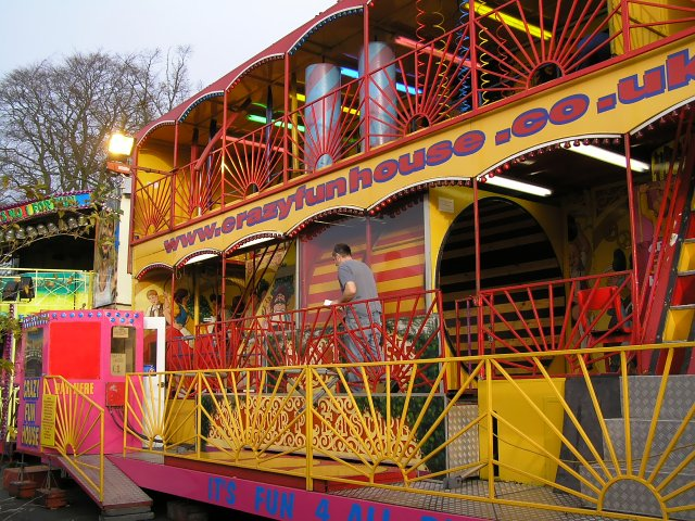 The 'funhouse' ride at Malton fair The workmen were dismantling it on the first of December. The whole thing folds up into a single truck.